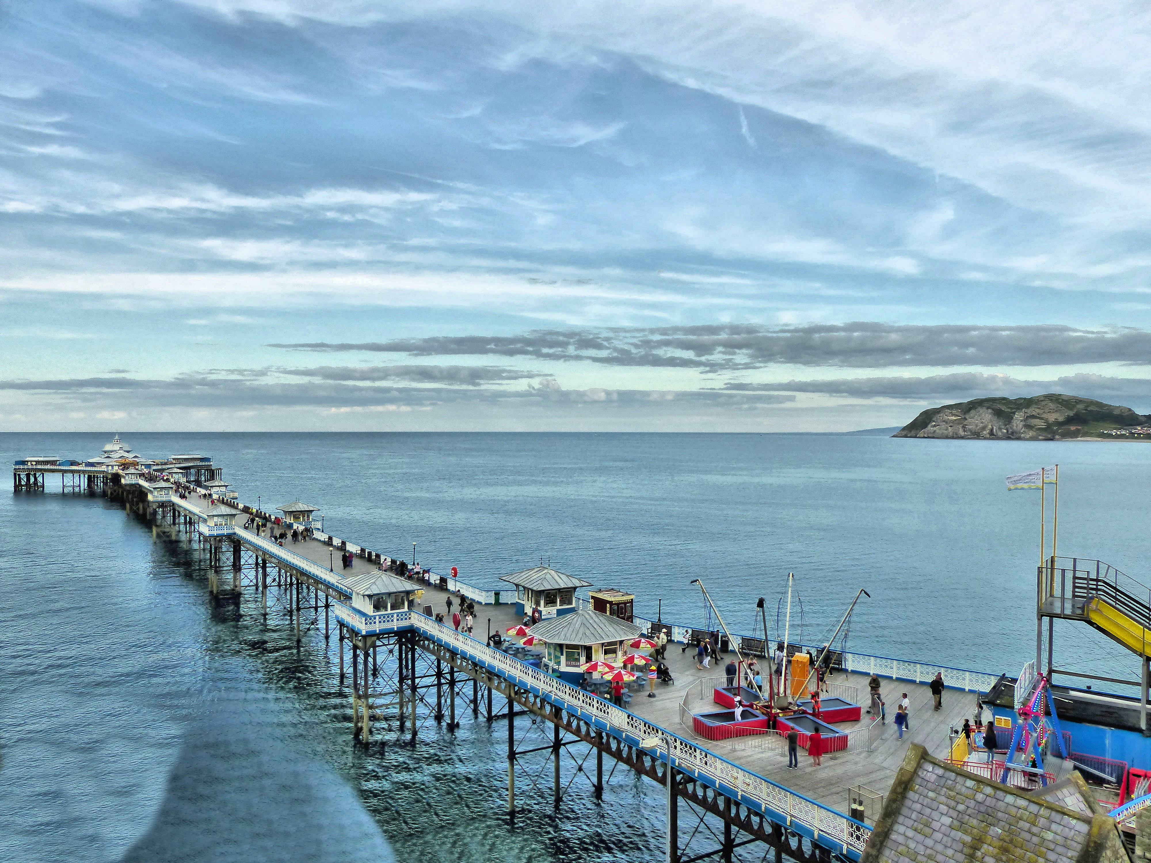 Llandudno Pier Wikidata has entry Q6661256 with data related to this item.